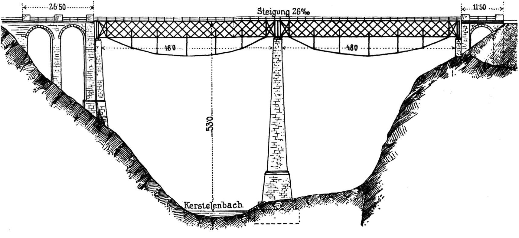 original Chärstelenbach Bridge at km 47.9 of the Gotthardbahn spanning the Maderanertal in Amsteg, also showing later reinforcements of the bridge.